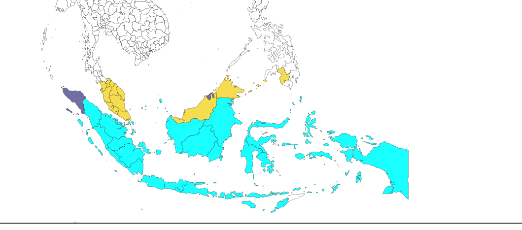 Use of sharia law in Southeast Asia. Sources can be found in this version of the Sharia article. Choice between sharia and secular courts, only on personal status issues Sharia applies in personal status issues only Sharia applies in full, including criminal law